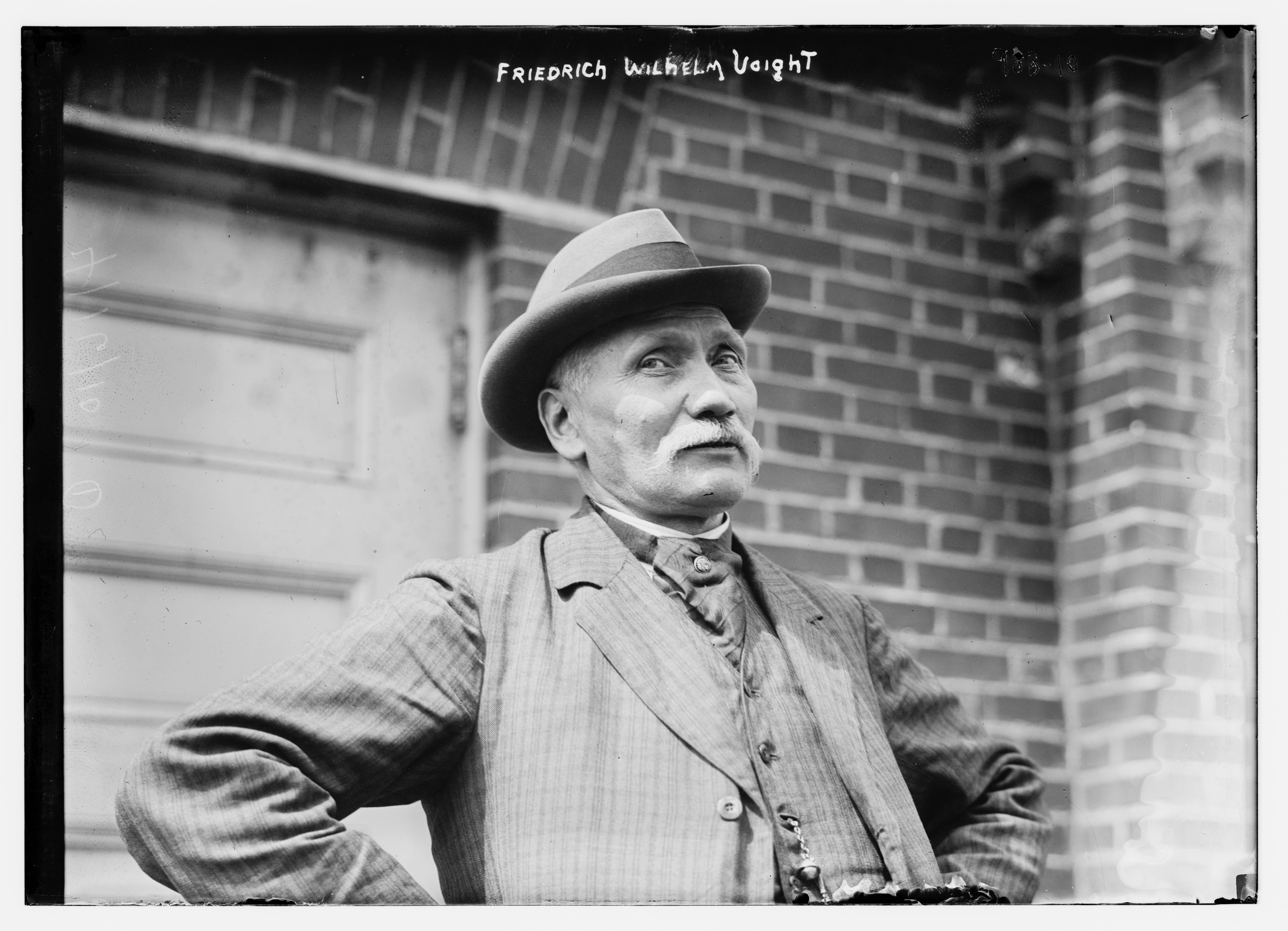 Title: Friedrich Wilhelm Voight Abstract/medium: 1 negative : glass ; 5 x 7 in. or smaller.